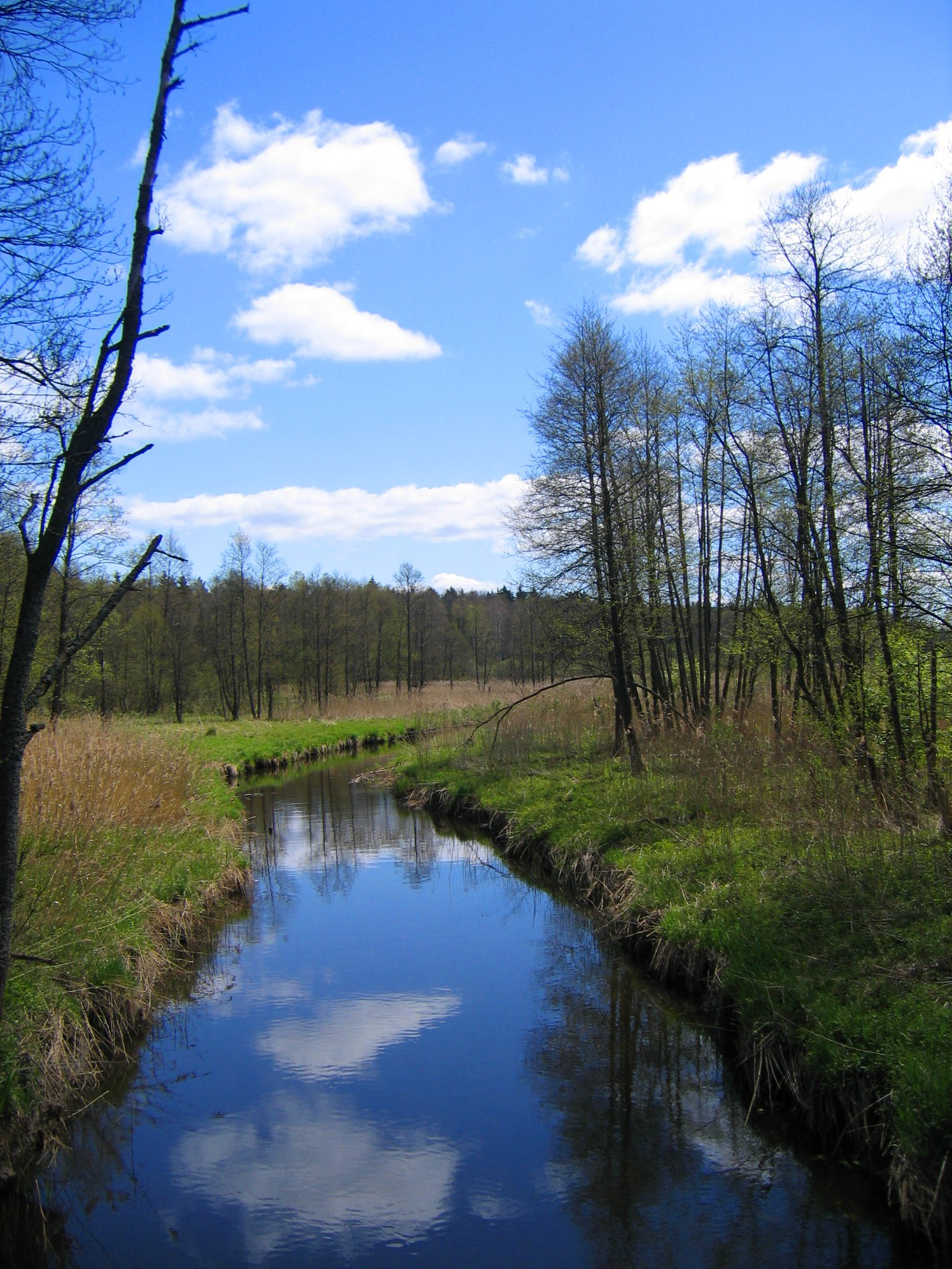 Narewka river, Nature reserve Wysokie Bagno, Białowieża Forest, Poland.